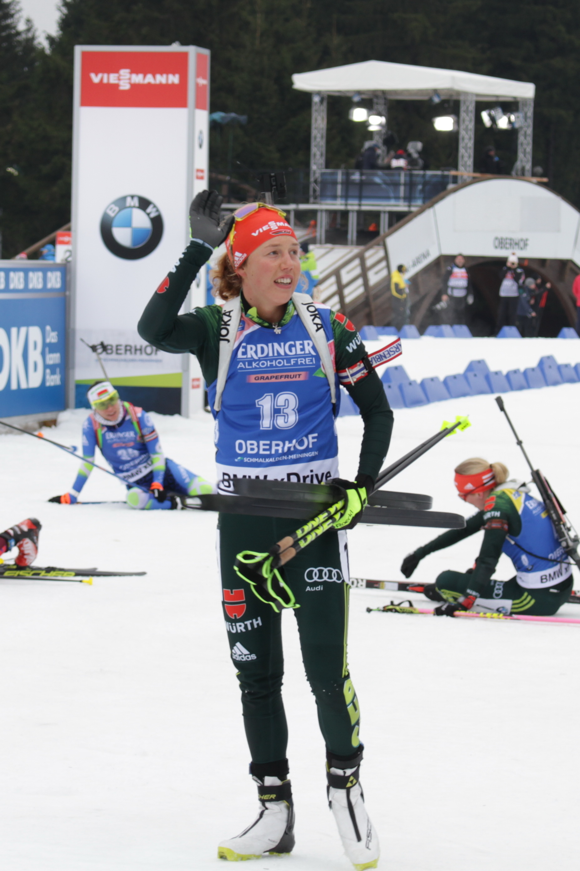 2018 Oberhof Biathlon World Cup - Pursuit Women